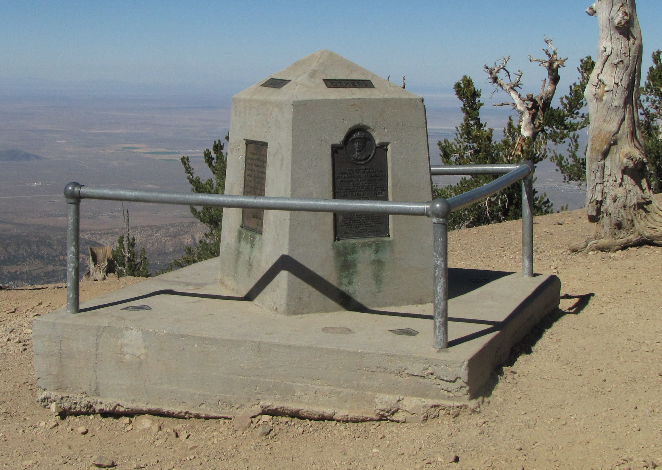 Mt. Baden-Powell Memorial seen from the South side Location: Top of Mt. Baden-Powell, Angeles National Forest, CA, USA